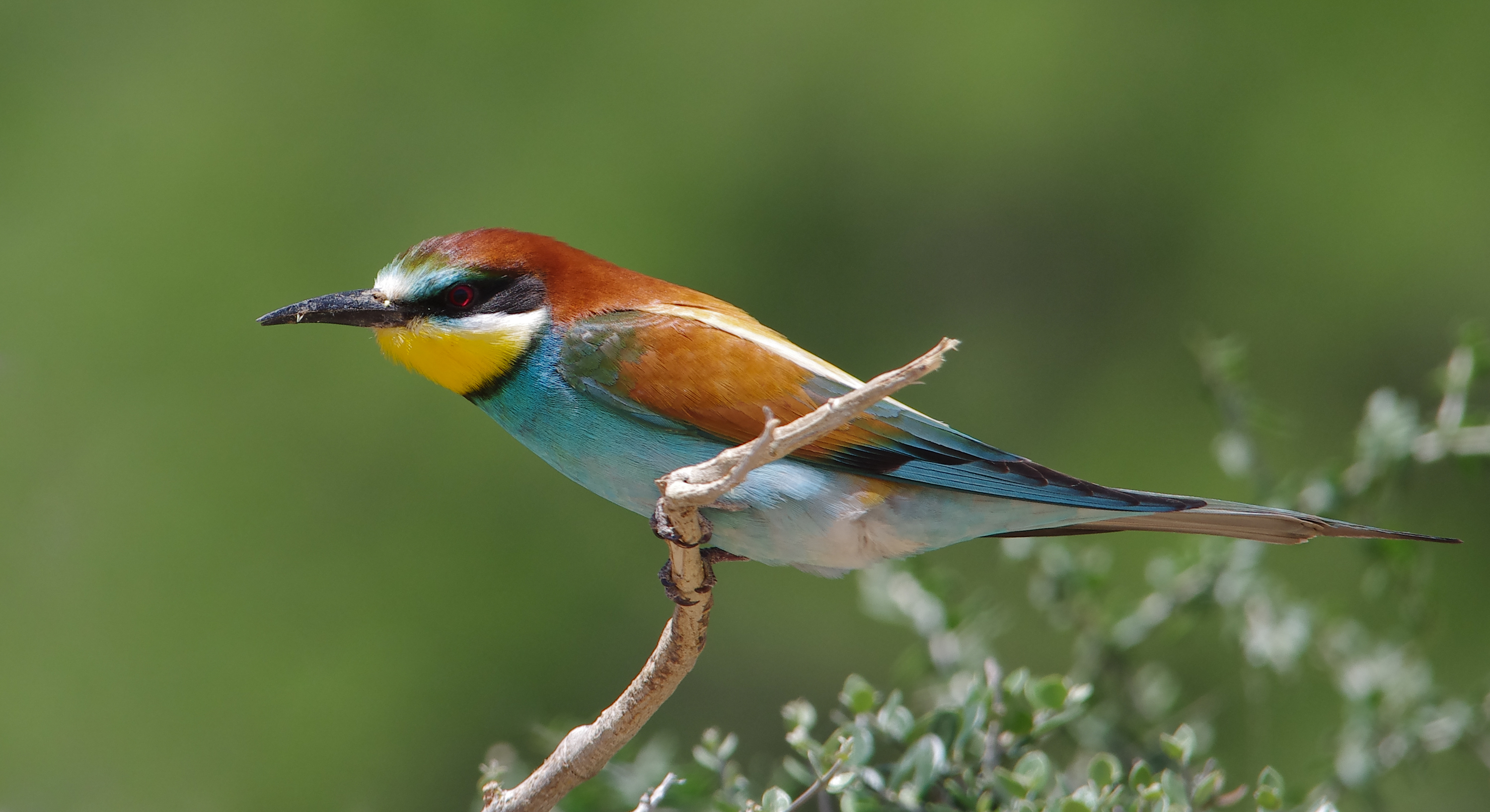 European bee-eater (Ichkeul National Park)